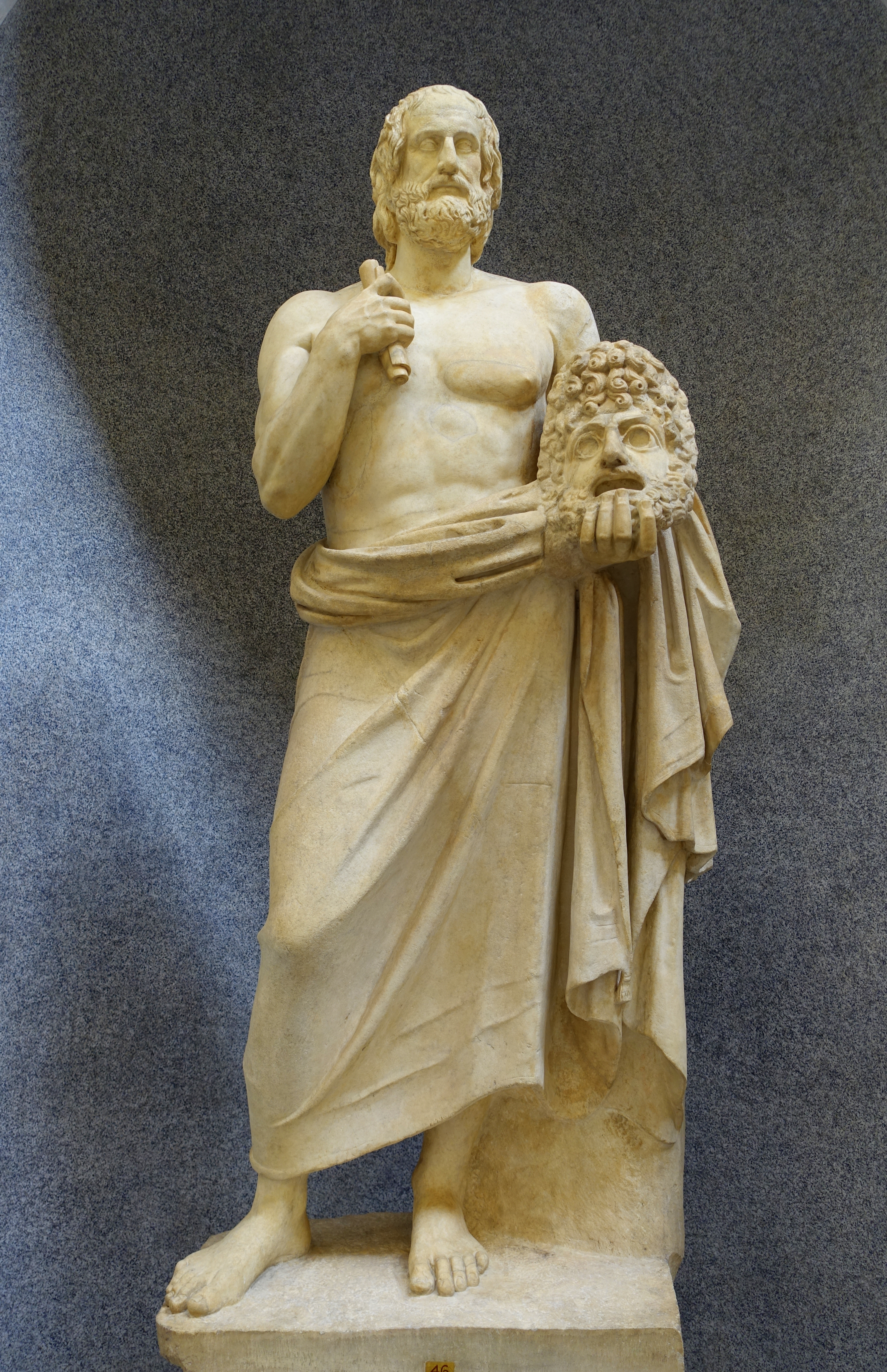 Exhibit in the Braccio Nuovo, Museo Chiaramonti - Vatican Museums.